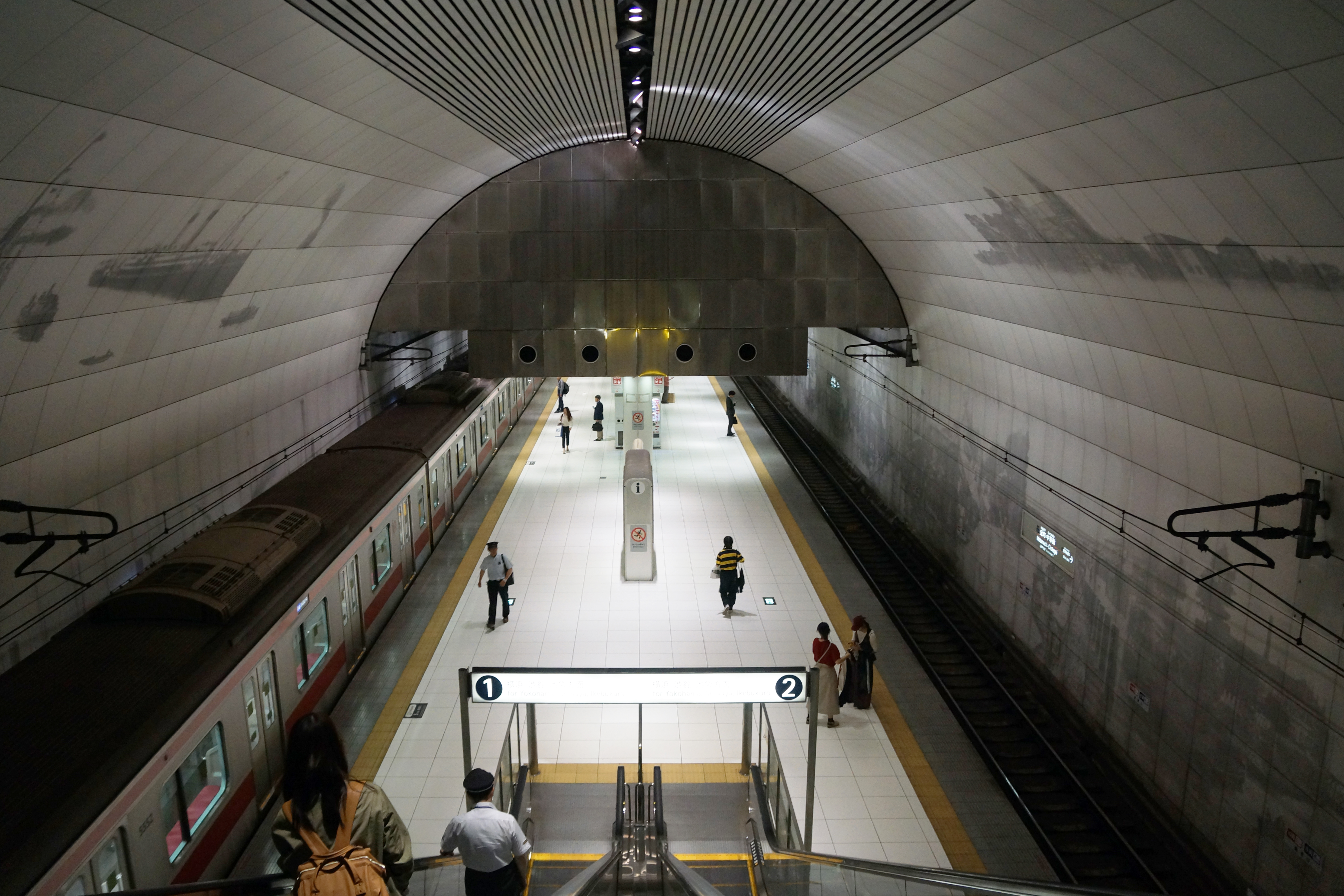 Middle section of Motomachi-Chukagai Station shot from main escalator